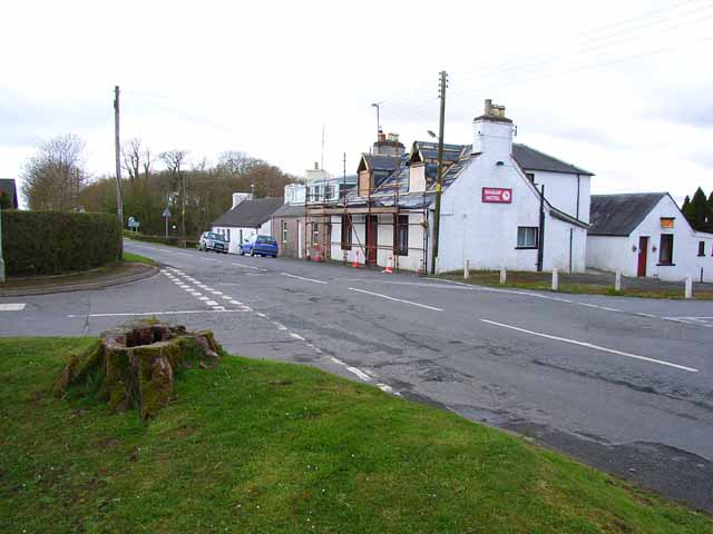 Whaup Hotel. At the time of this photo, this pub in the centre of the tiny village of Whauphill was undergoing a face lift, following the death of the landlord. It has subsequently reopened as a pub and restaurant with an lively music programme; customers are active in fund-raising for cancer research.